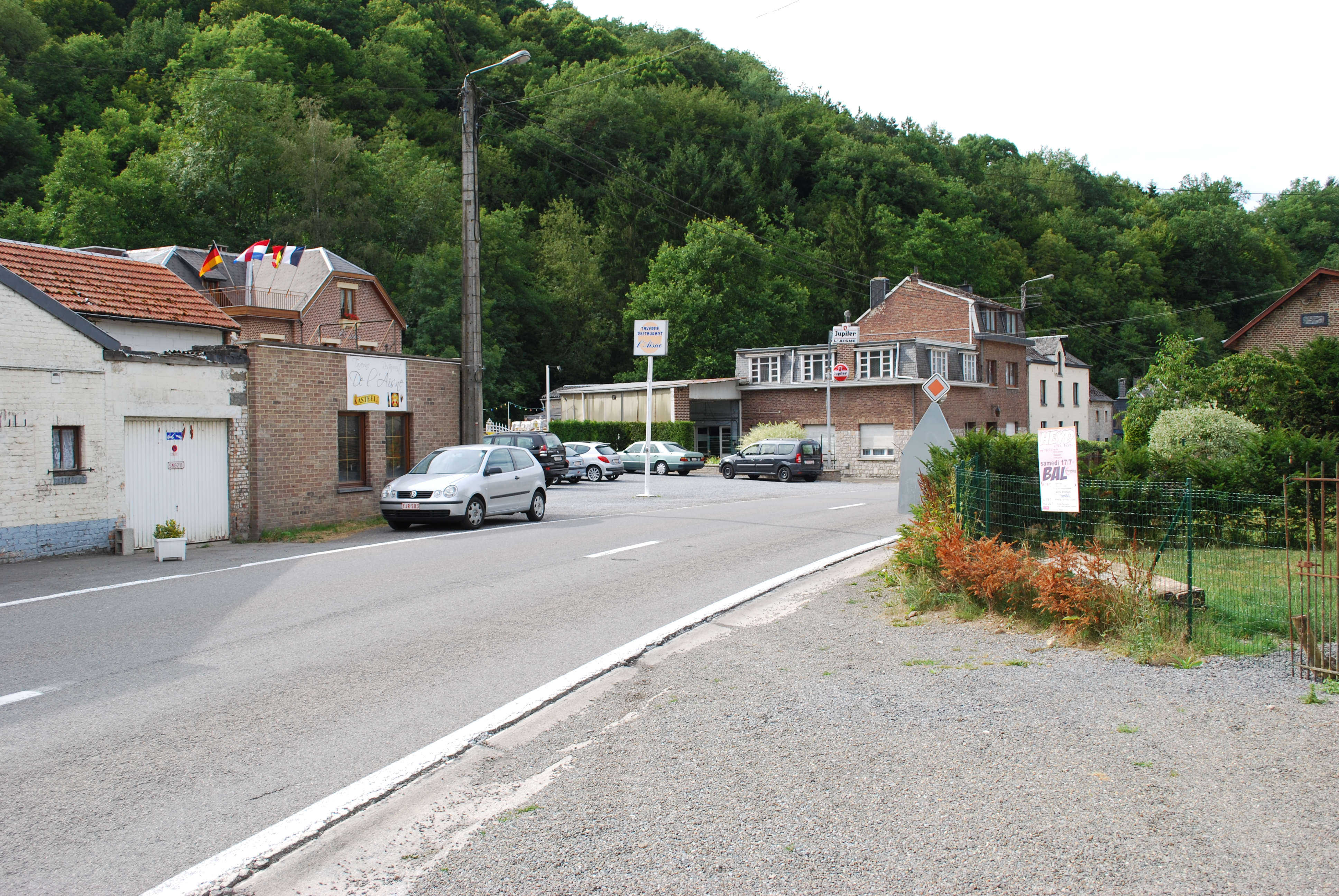 Vue de Juzaine (Bomal), sur la route nationale 806.